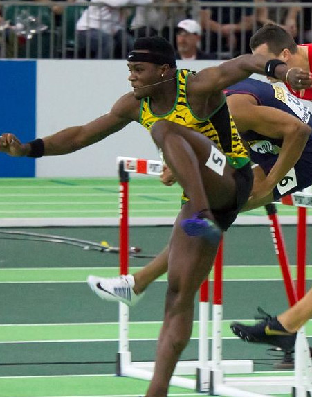 Omar McLeod during 2016 IAAF World Indoor Championships in Portland